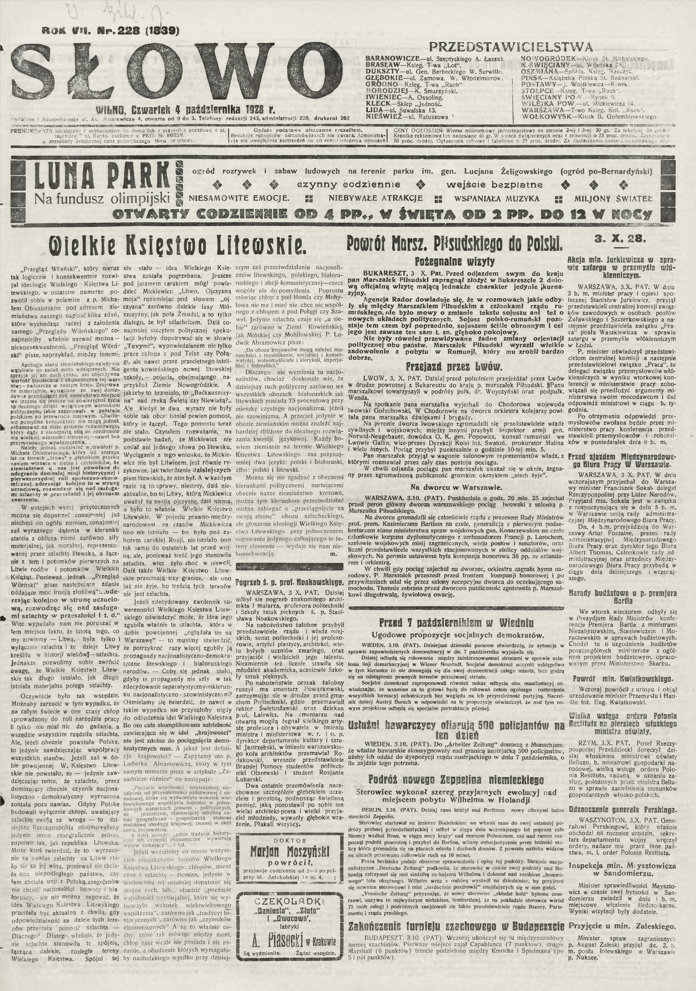 first page of newspaper "Słowo" (#228, 1928 AD), Poland. Stanisław Mackiewicz (1896-1966)'s article "WKL"